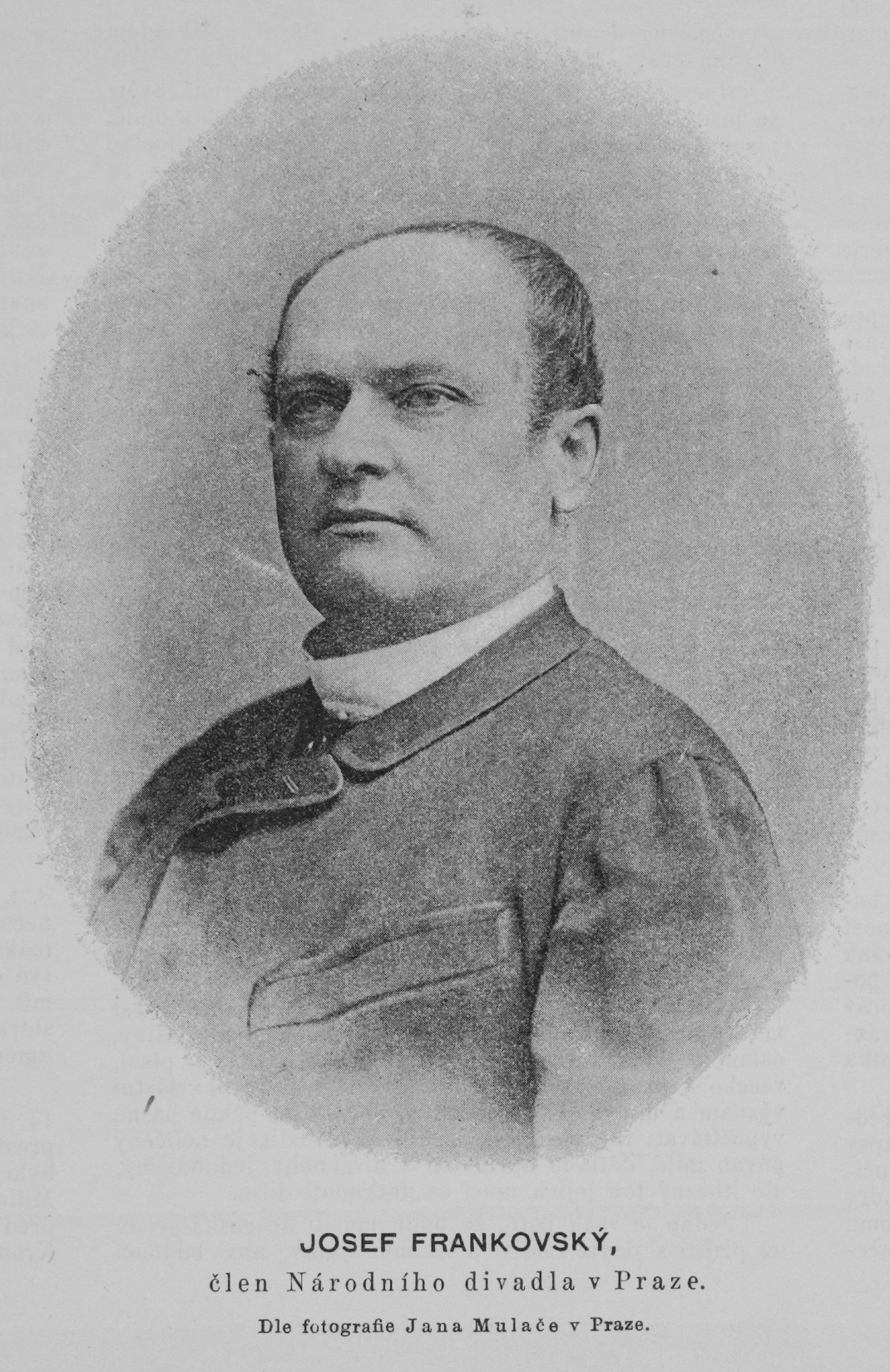 Portrait of Josef Frankovský (1840 - 1901), Czech actor.